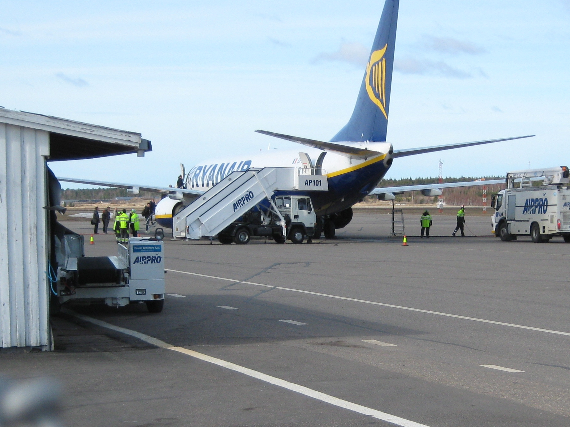 B737-800, EI-ENG at Turku Airport in front of T2 First ever Ryanair Flight to Turku